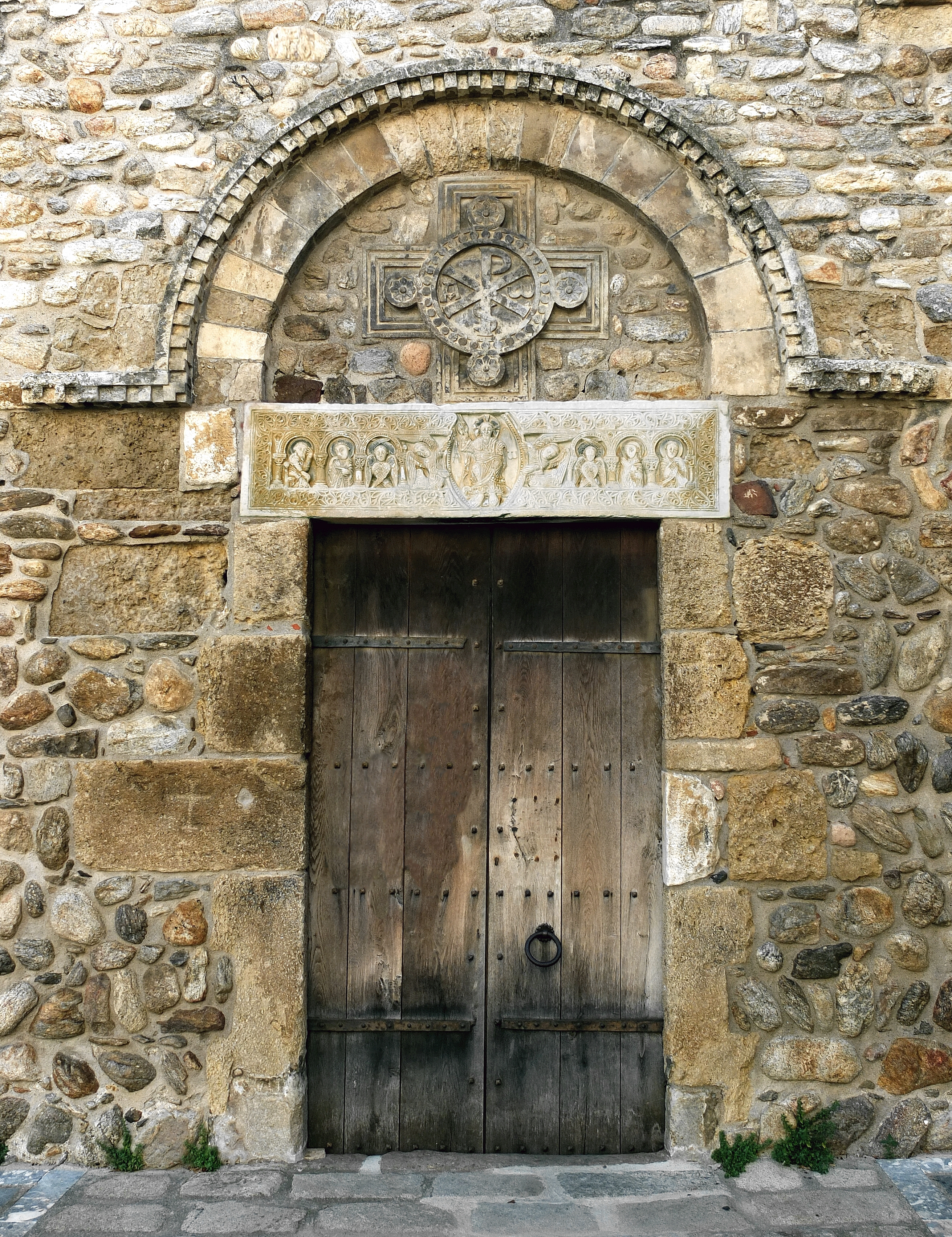 Portal of the parish church St-André-de-Sorède (Catalan: Monestir de Sant Andreu de Sureda), 10th-12th century, Saint-André (Pyrénées-Orientales), France).